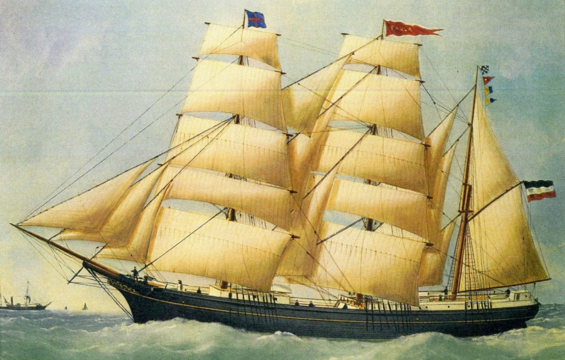 Painting of the German barque Paula, by Édouard Adam